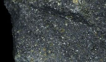 Tertiary Basalt from area of Žiar nad Hronom, Slovakia